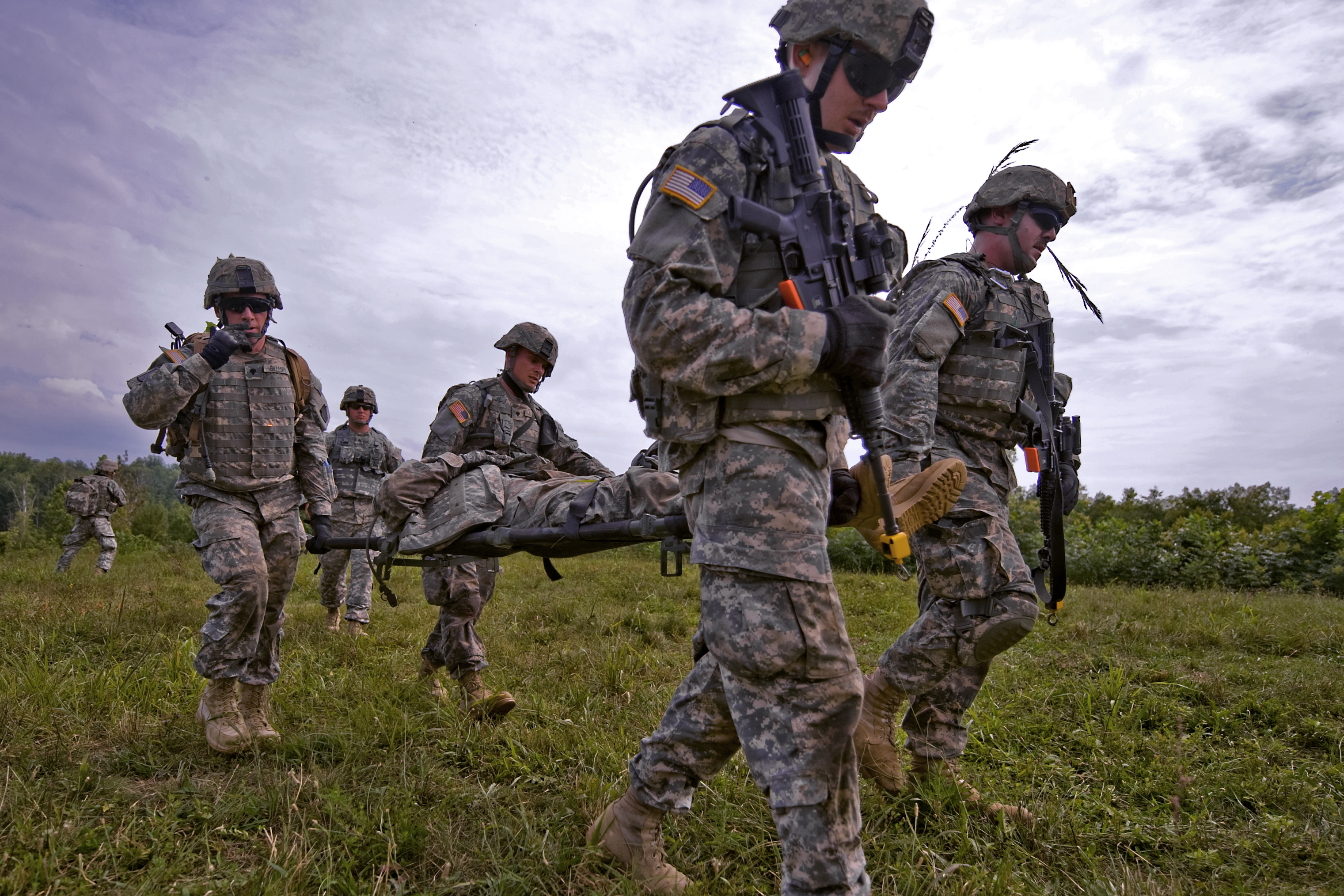 Ohio National Guard soldiers of 2nd Squadron, 107th Cavalry Regiment, headquartered in Hamilton, Ohio, litter carry a simulated wounded soldier during a combined-arms exercise held at the Infantry Squad Battle Course at Camp Atterbury, near Edinburgh, Ind., Aug. 12. The combined-arms, live-fire exercise was the culmination of two years of planning, preparation and training that integrated snipers, scouts, mortars, infantry and medics. (U.S. Army photo by John Crosby, Camp Atterbury Public Affairs)